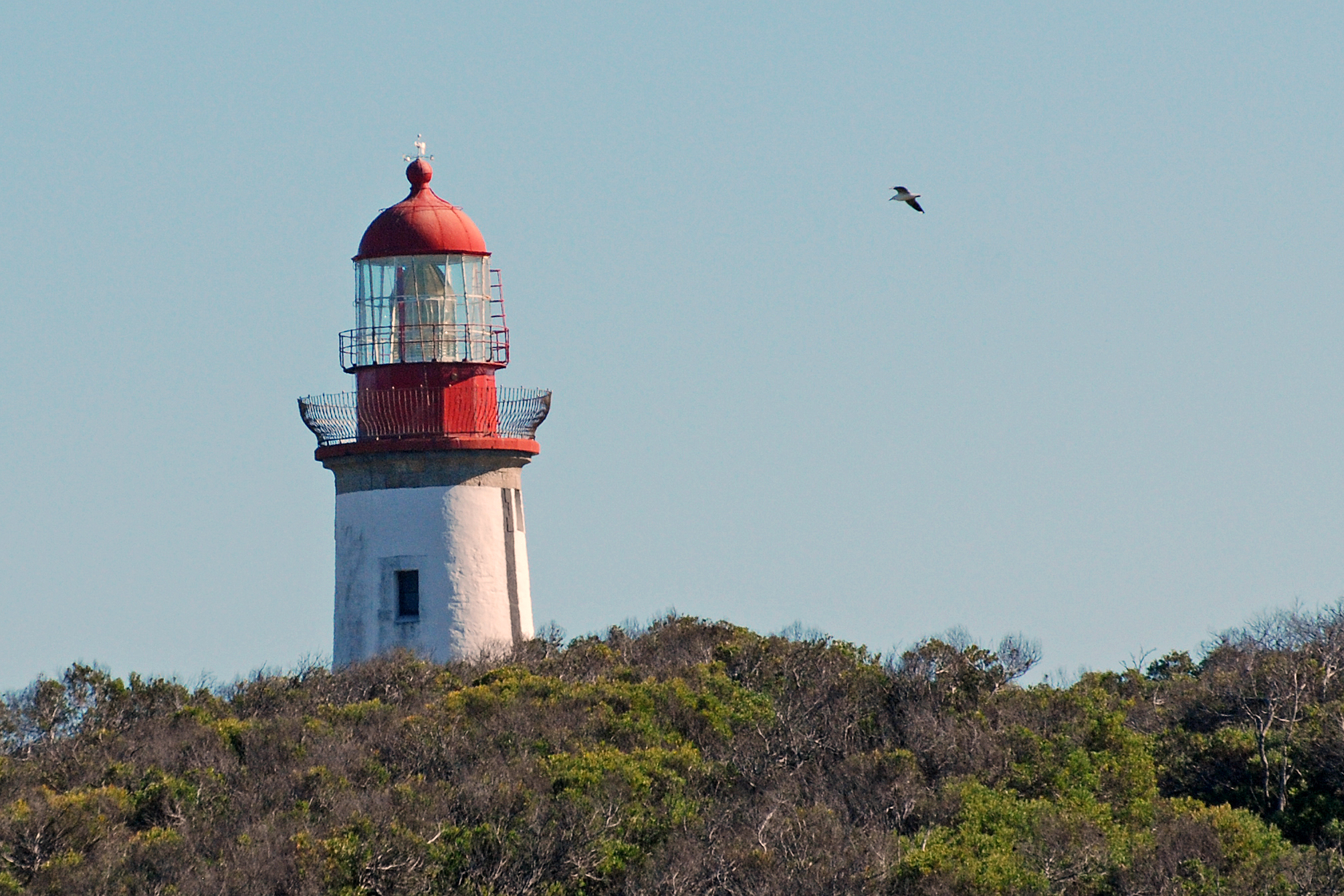 Robben Island Lighthouse / Jan van Riebeeck first set a navigation aid atop the highest point on the island. Huge bonfires were lit at night to warn ships of the rocks that surround the island. The current lighthouse was built 1864 and converted to electricity in 1938. It is the only South African lighthouse to utilise a flashing light instead of a revolving light and is visible for 24 nautical miles.